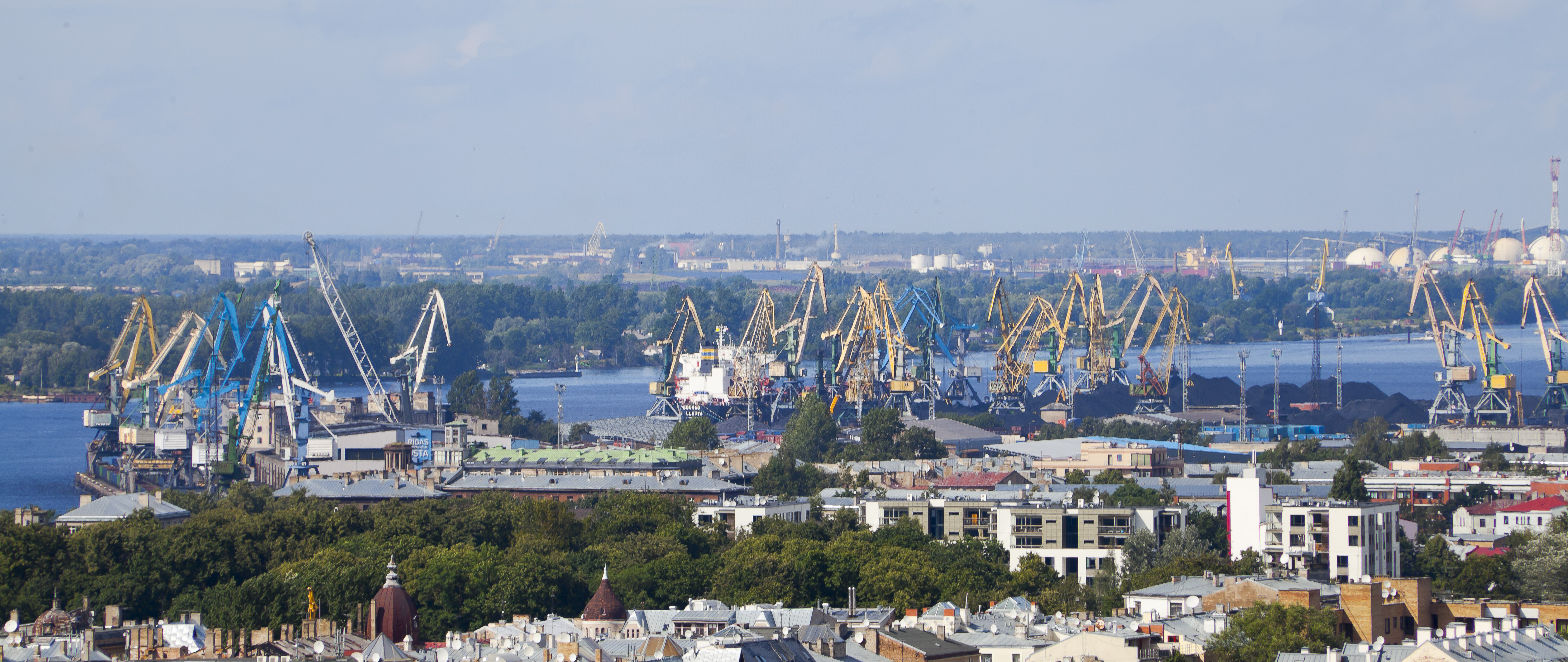 View of Riga from St. Peter's church, Latvia